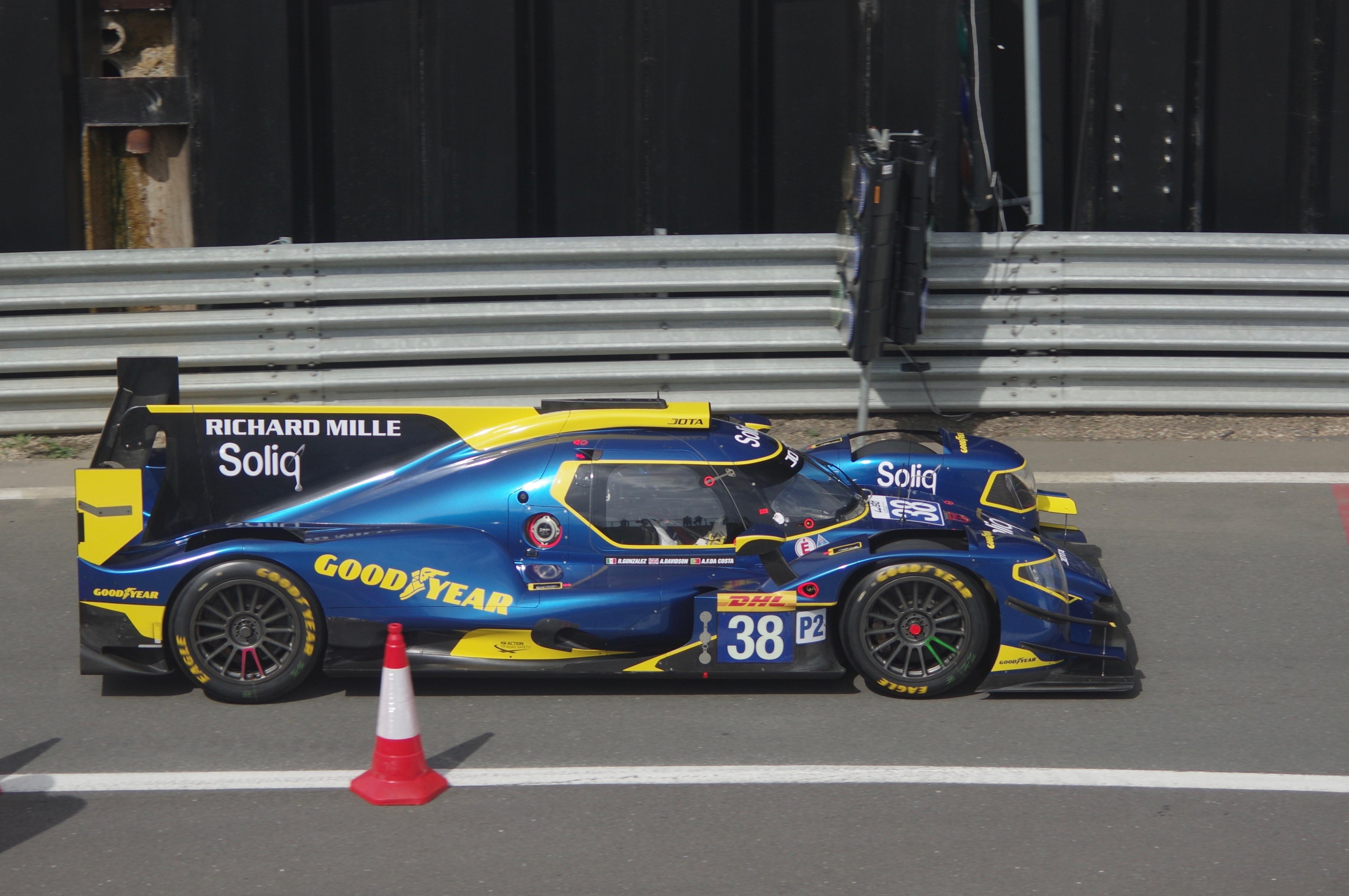 2019 4 Hours of Silverstone 38.